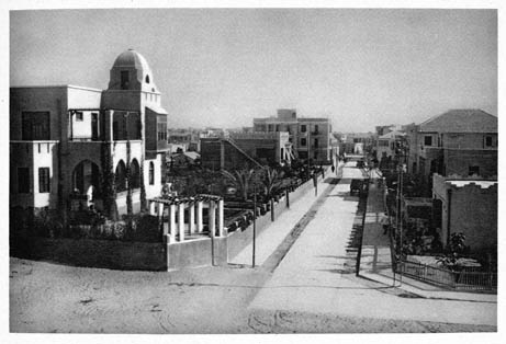 Beit Bialik, mid 1920'.